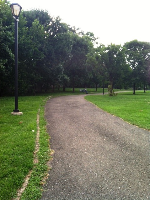 The Glenmont Greenway Urban Park in Montgomery County, Maryland in August 2013.